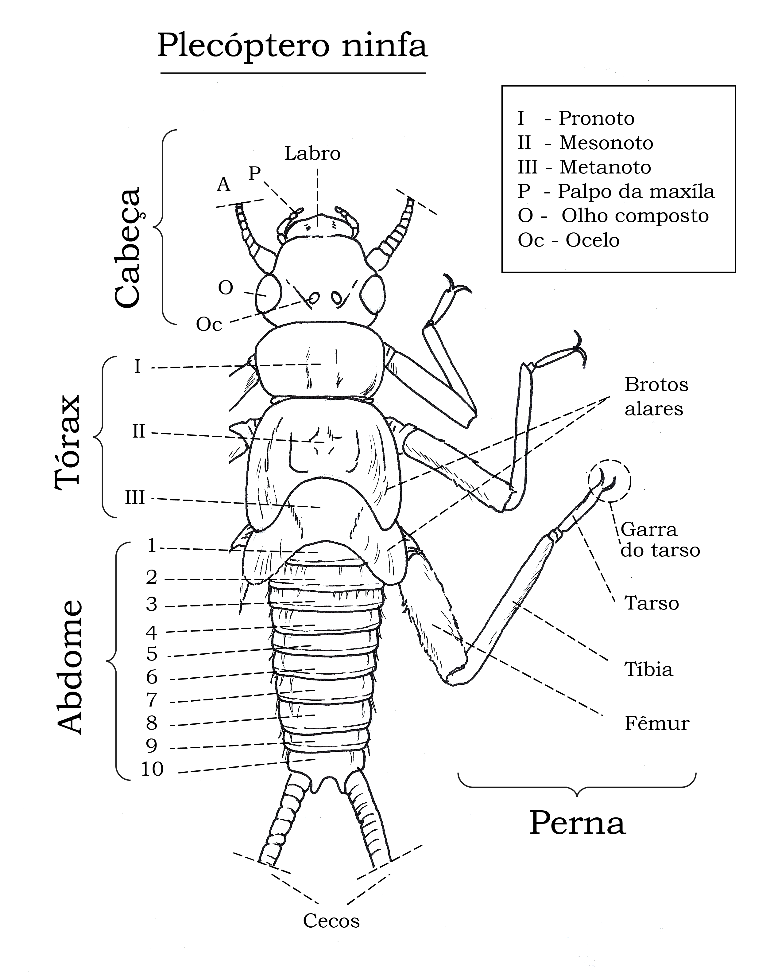 Morphology of stonefly nymph